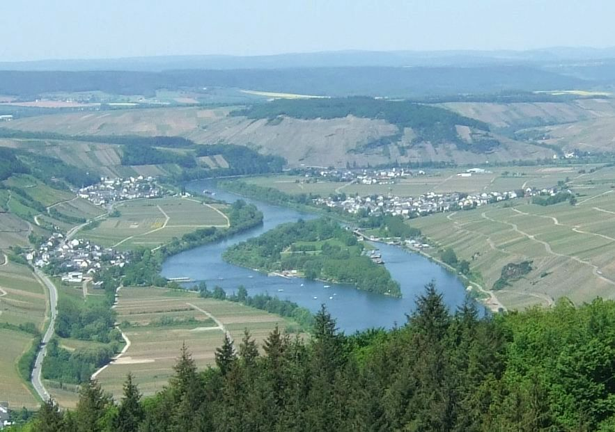 Detzem